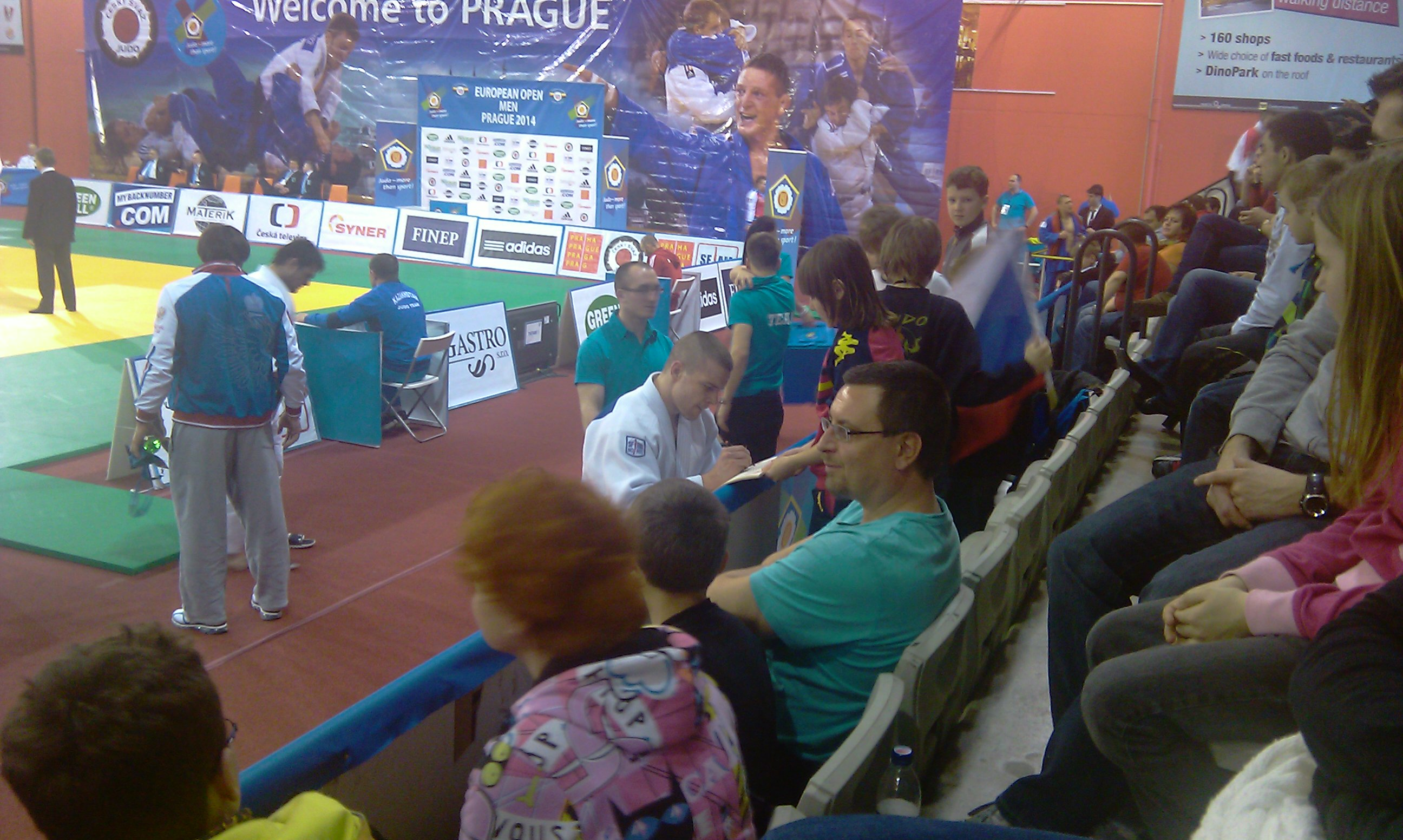 czech judoist